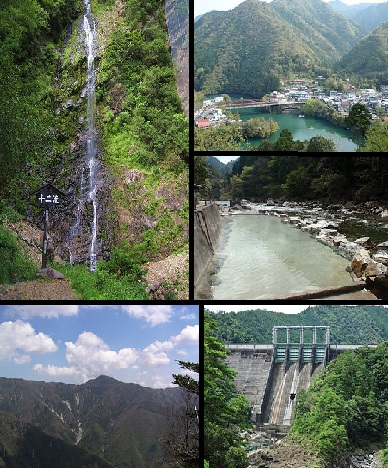 Totsukawa montage